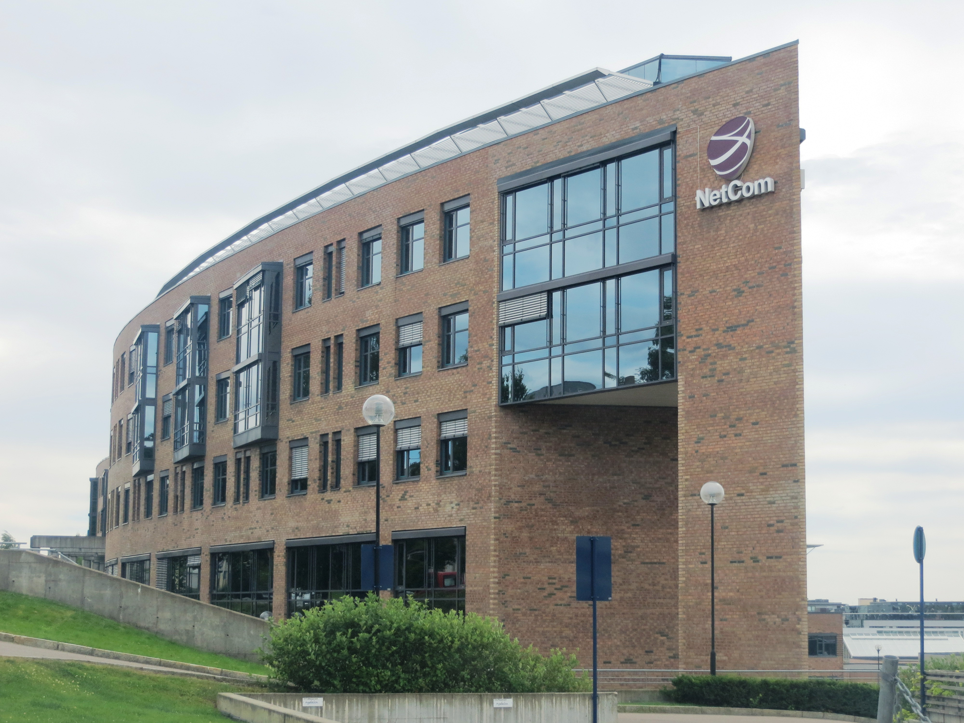 NetCom (TeliaSonera) Norway, headquarters in Nydalen, Oslo (Norway)